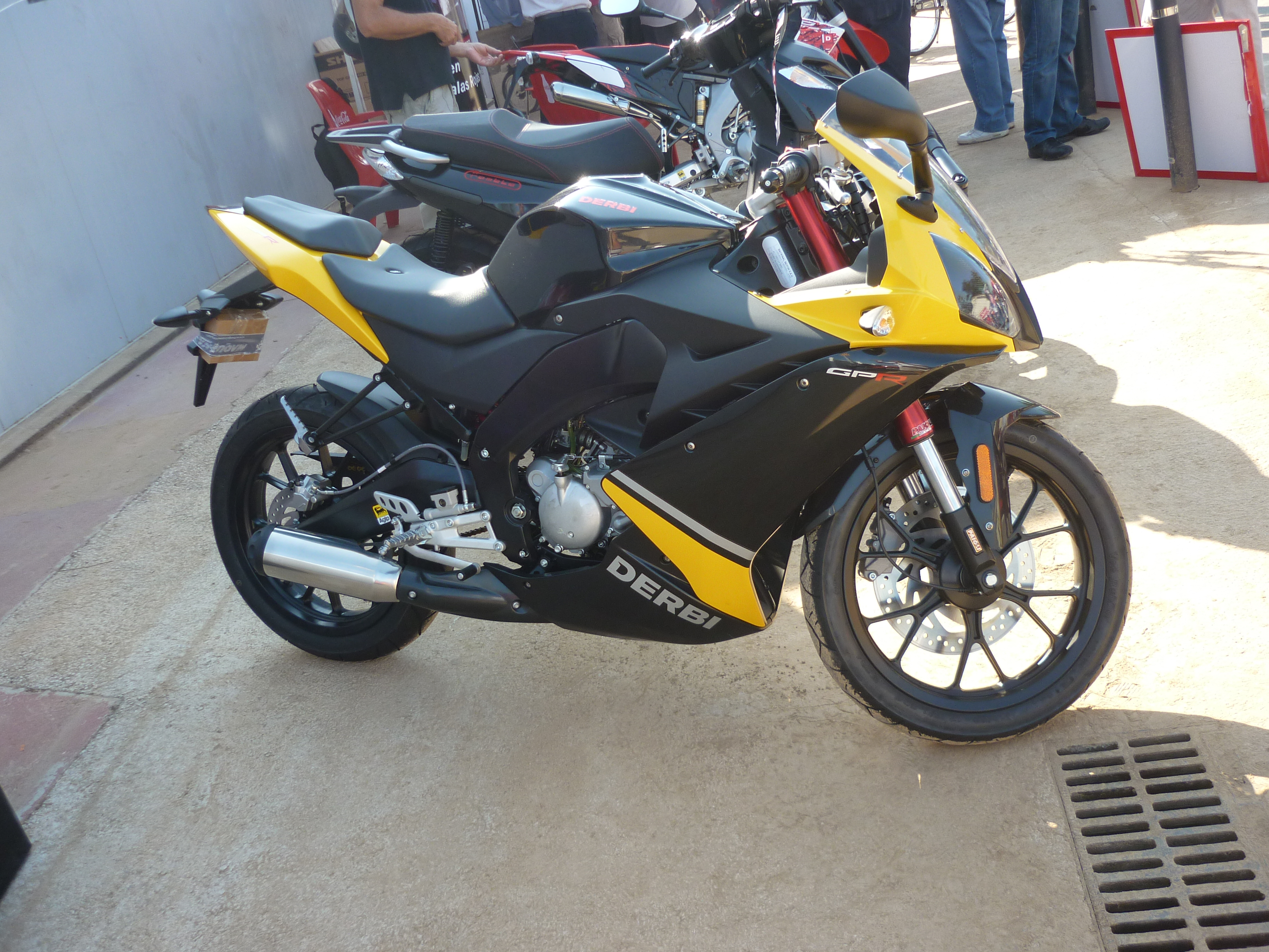 Derbi GPR 50 (2010). Motorcycle meeting held on September 10, 2011 in Can Carrancà (near the Derbi factory in Martorelles, Catalonia).